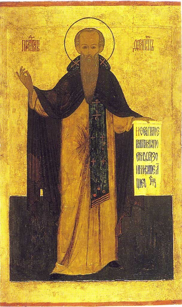 Ferapont Belozersky